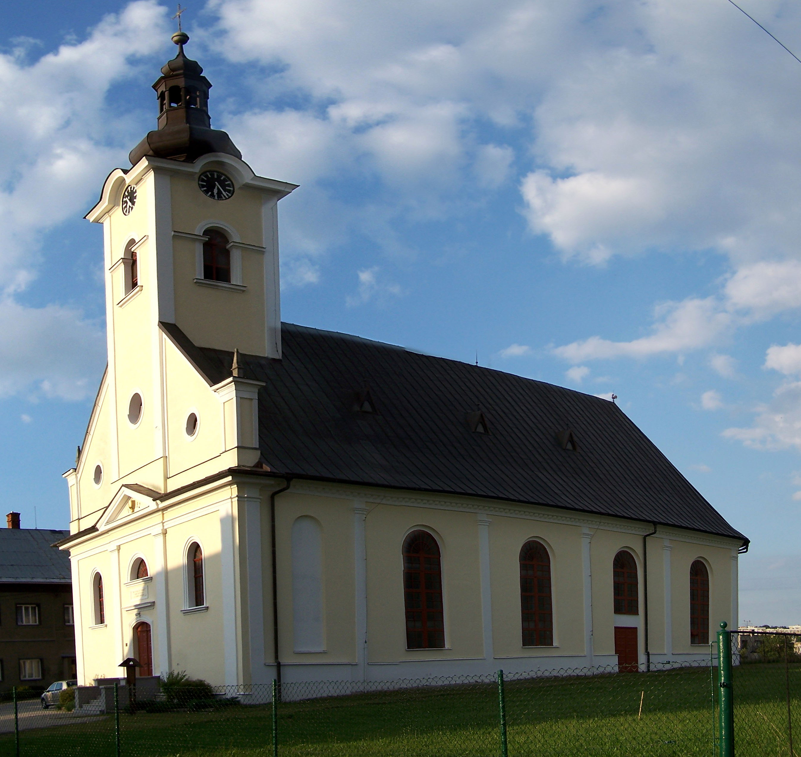 Lutheran church in Dolní Bludovice (Błędowice Dolne), Czech Republic